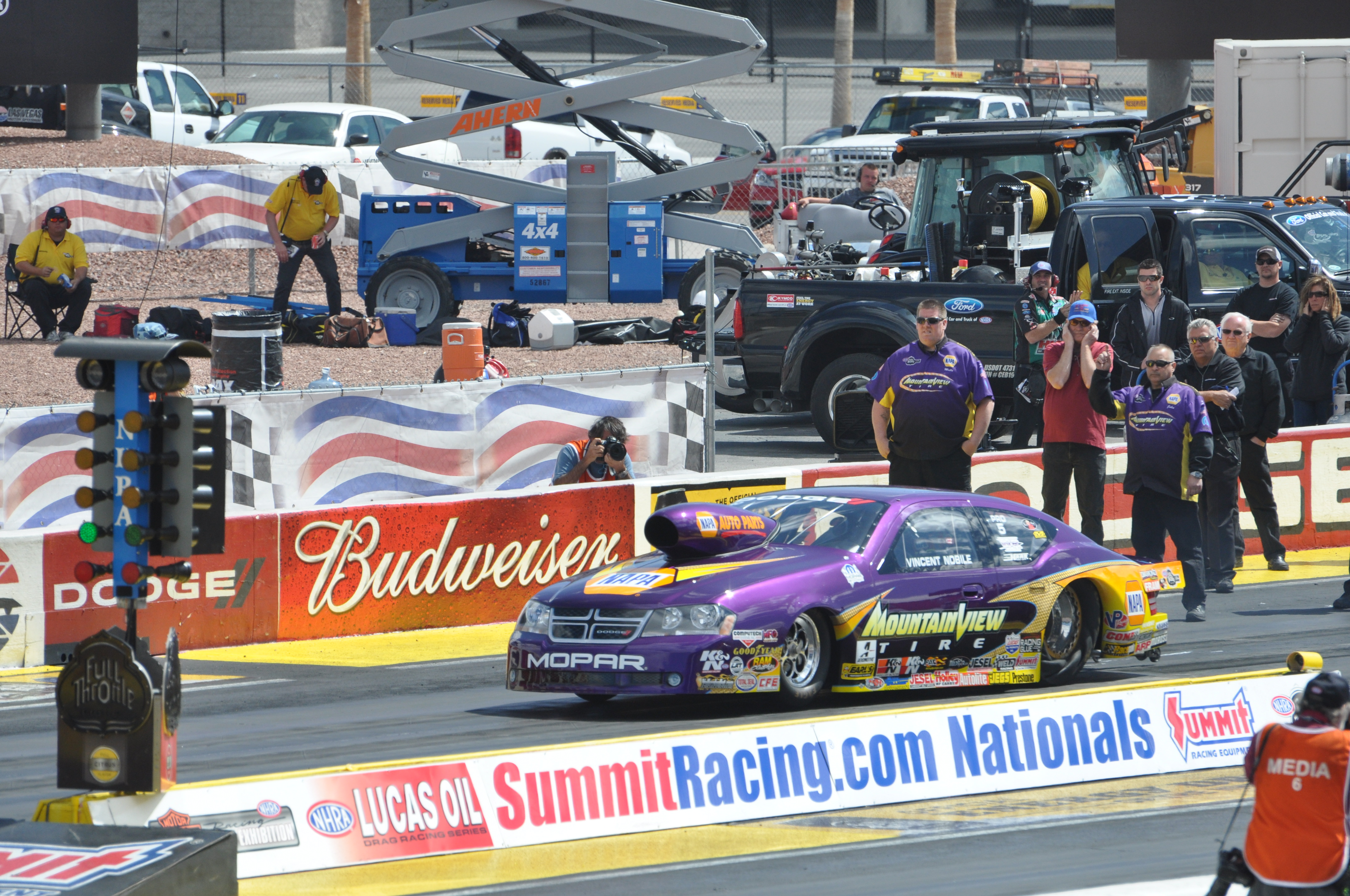 Vincent Noble racing his Mountain View Tire Dodge Avenger at LVMS April 1st 2012